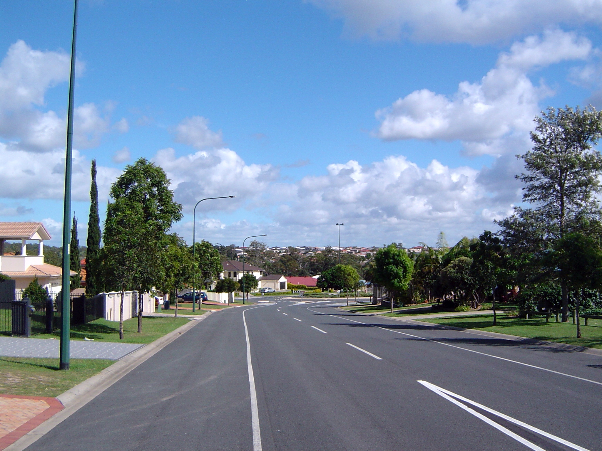 Photo of homes and Lamberth Road at Heritage Park, City of Logan, Queensland, Australia.